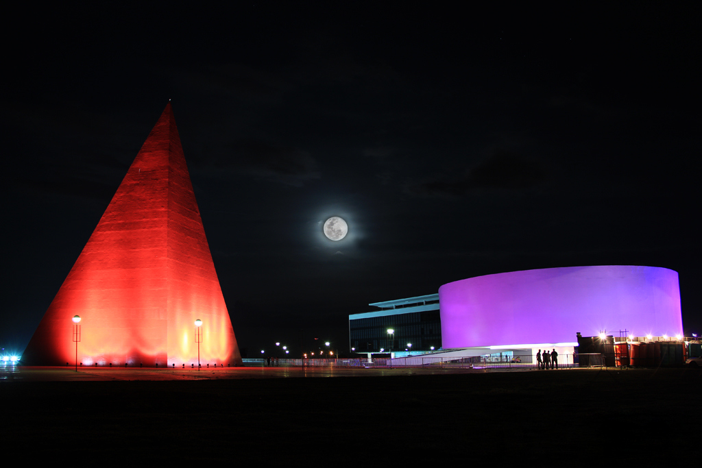 Oscar Niemeyer Cultural Center, Goiânia, Goiás, Brazil.